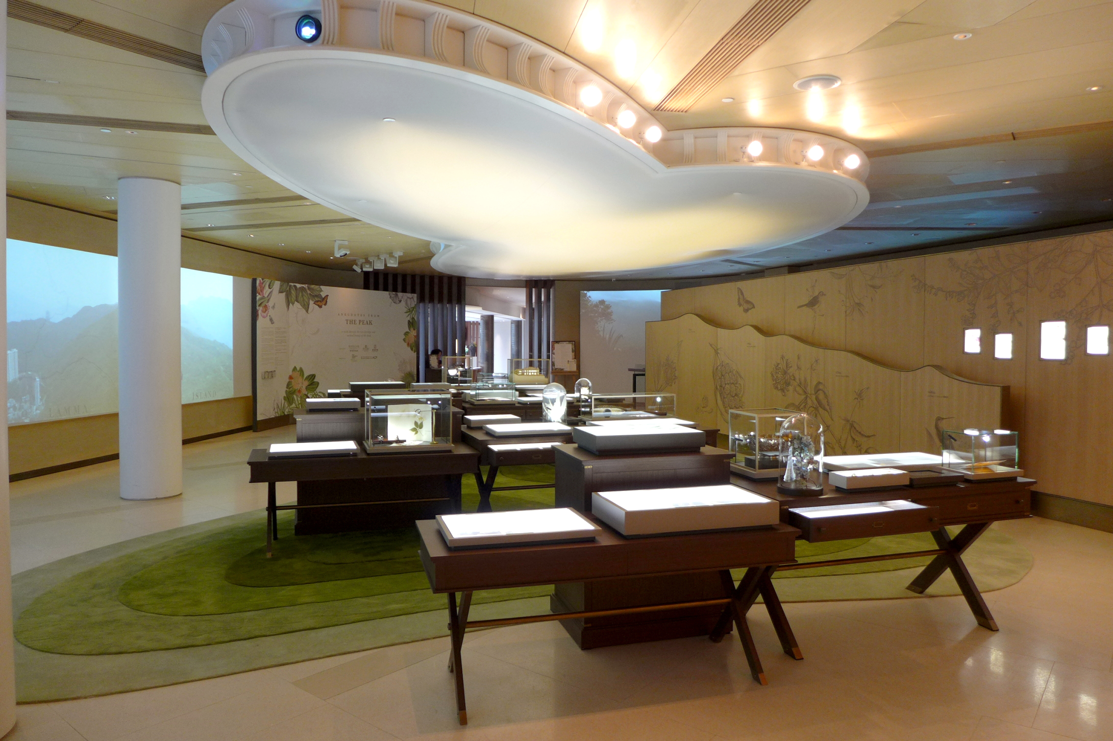 Queensway Plaza Level 2 Gallery